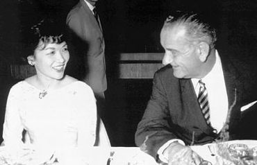 Madame Ngô Đình Nhu and Lyndon Baines Johnson, May 12, 1961, from LBJ library'